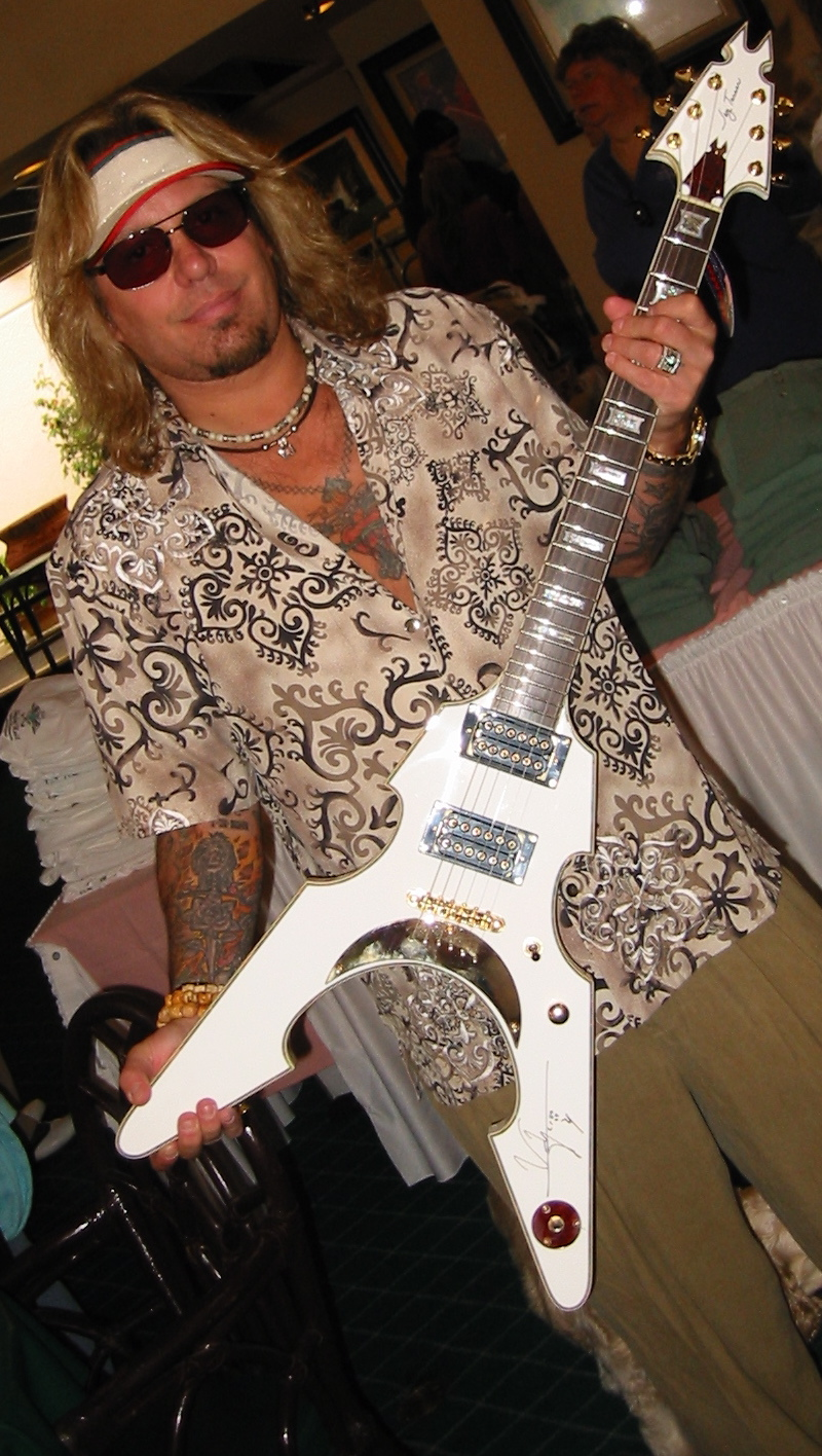 Photo of Mötley Crüe's Vince Neil with autographed Jay Turser Warlord Guitar, which was auctioned for $1400.00, with funds going to the Skylar Neil Foundation.